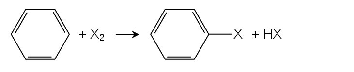 reaction between benzene and halogen